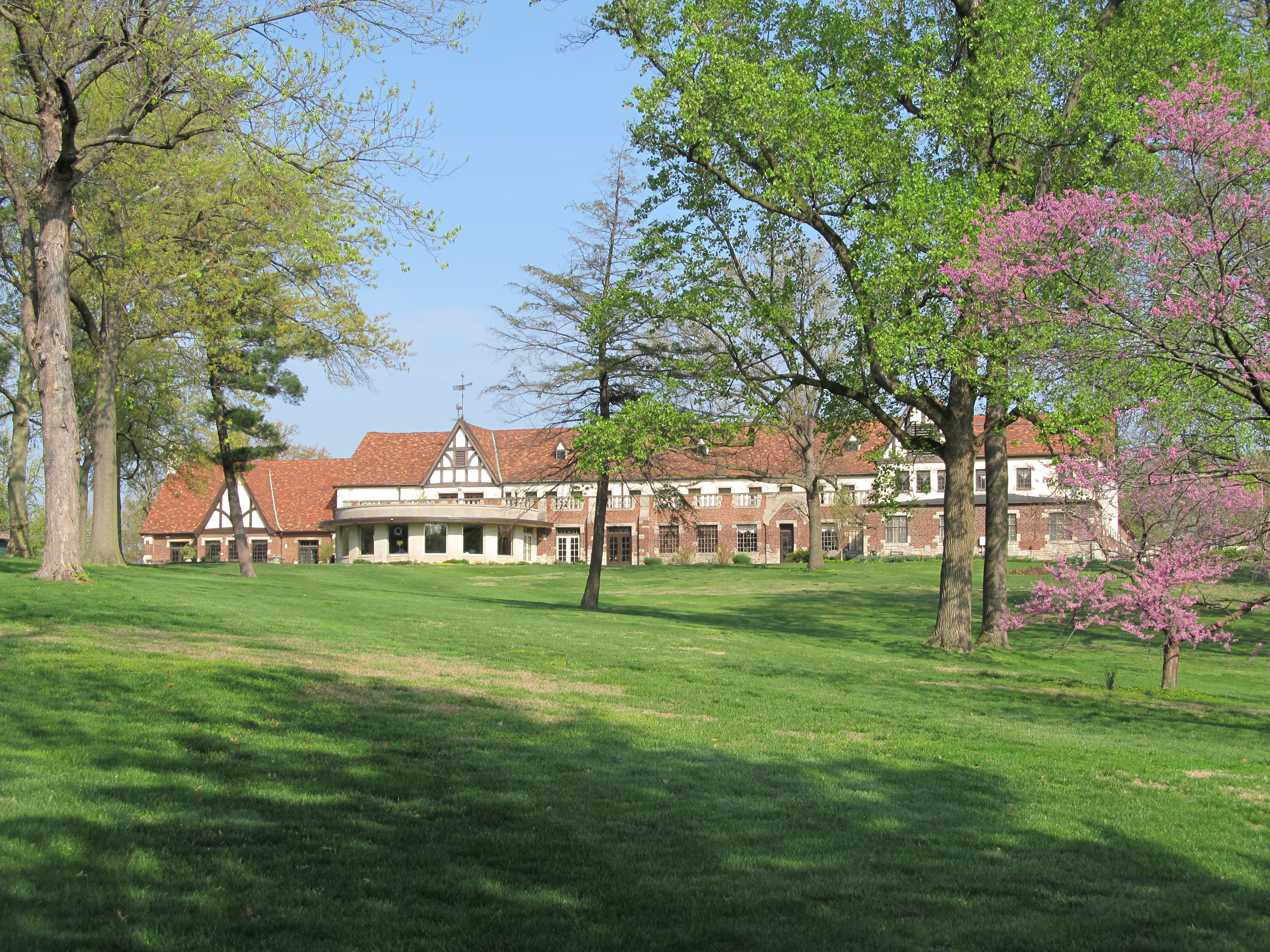 Clubhouse